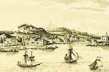 Old painting of Argostli port, Kefalonia, Greece